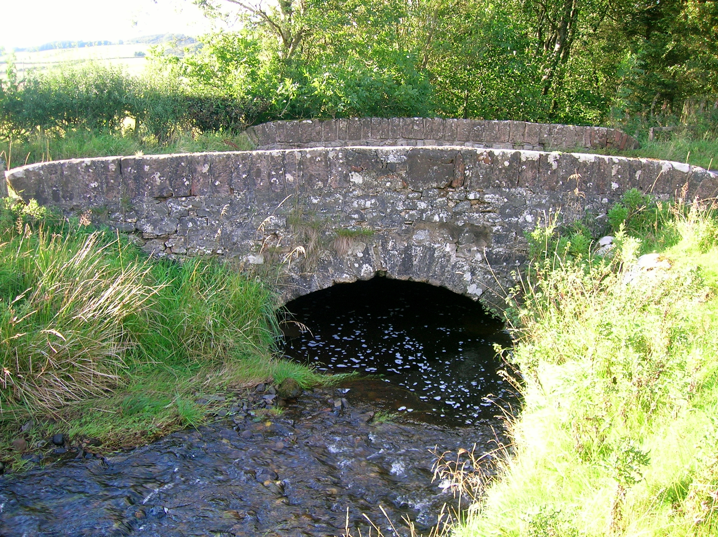 The Kerse Bridge over the Bow Burn below the old castle site, East Ayrshire, Scotland